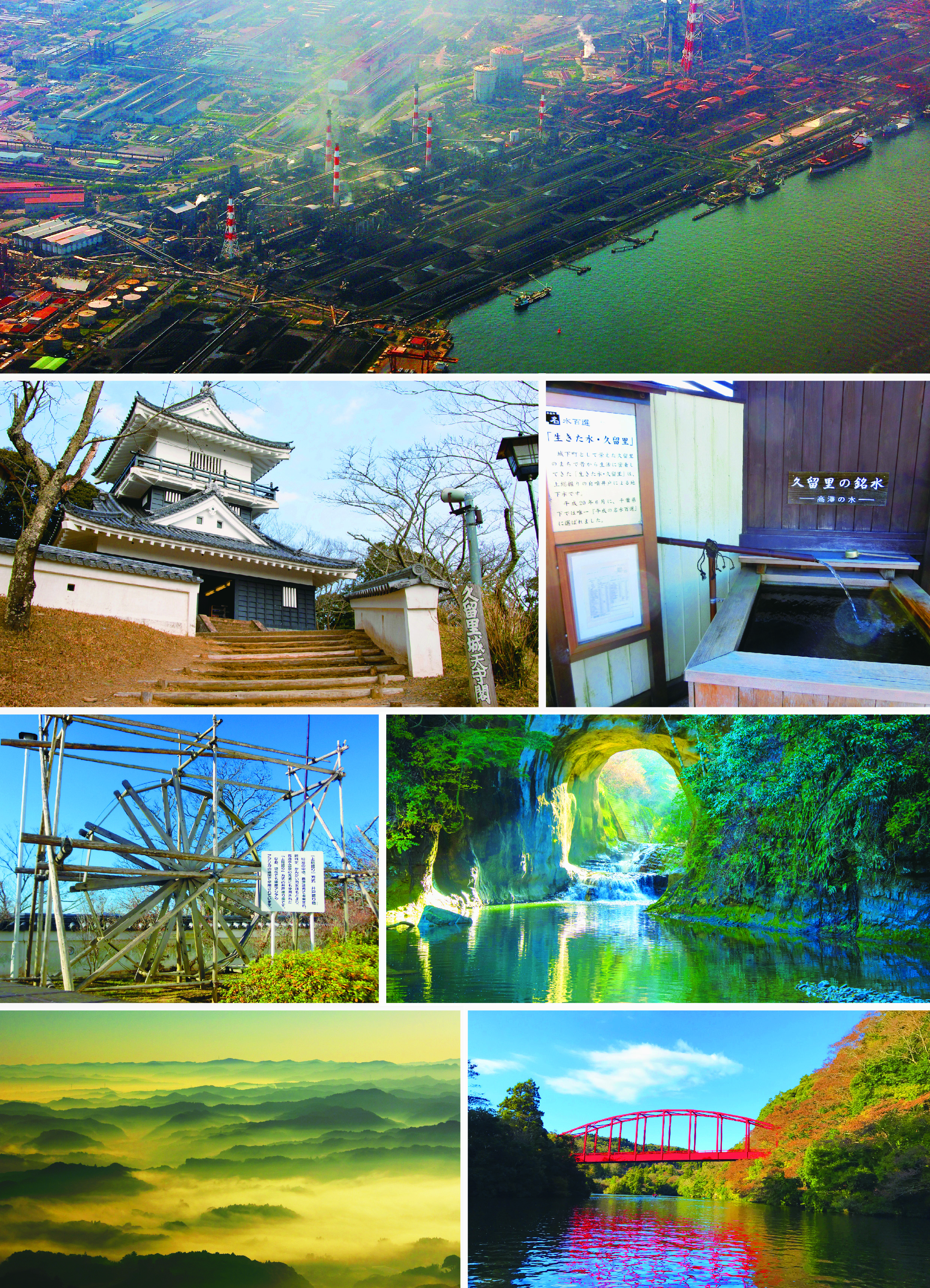 Kimitsu montage.jpg